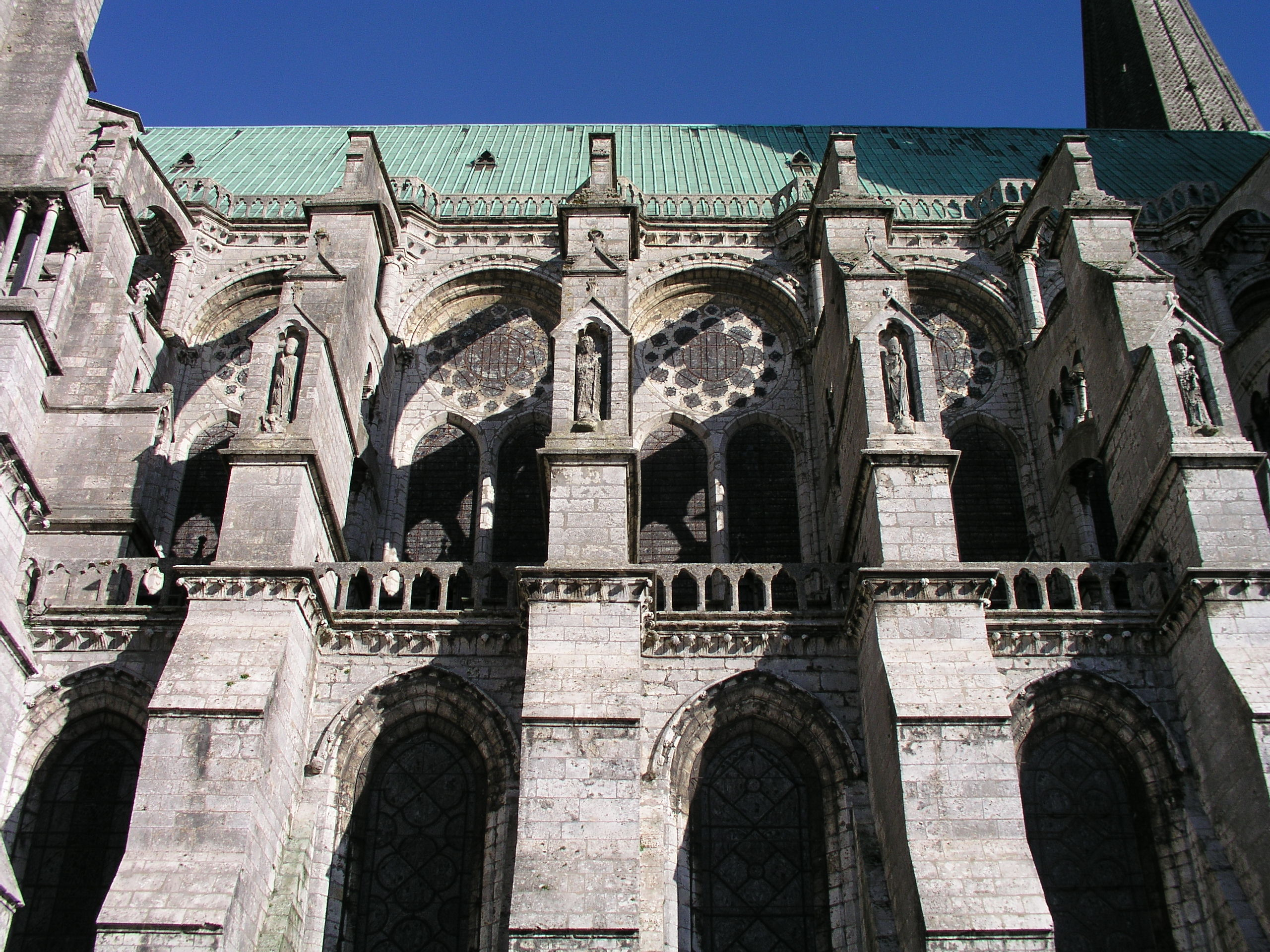 Chartres cathedral, outside view: Clerestorey and flying buttresses.